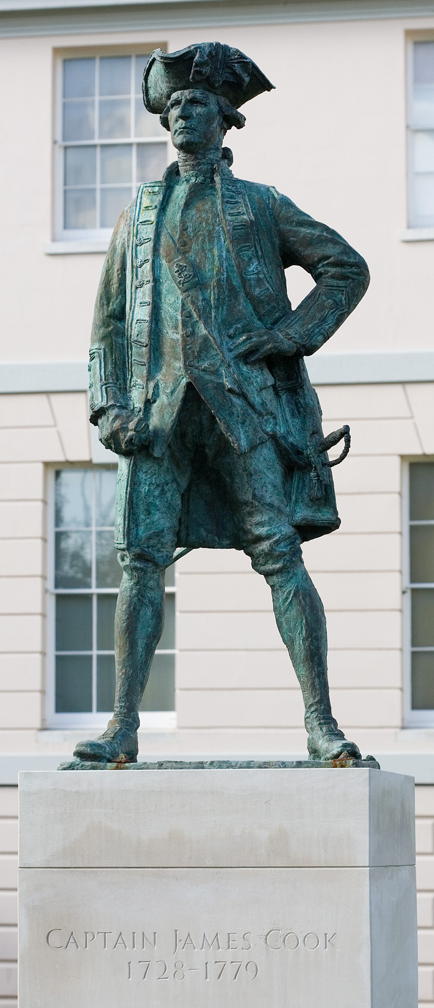 A statue of James Cook in Greenwich, London, England. Taken by myself with a Canon 5D and 100mm f/2.8 lens.